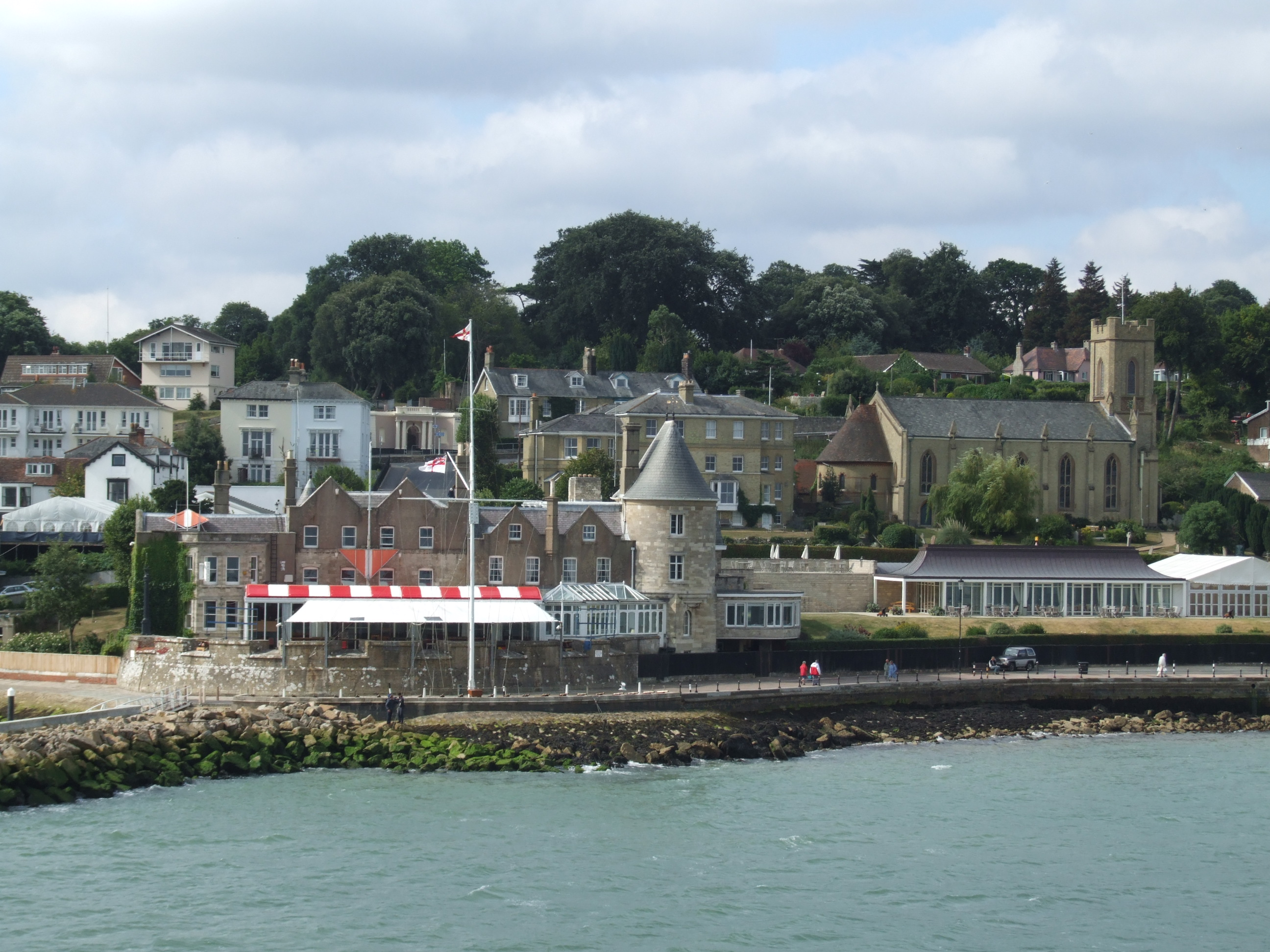 Cowes et East-Cowes, Island of Wight, UNITED KINGDOM